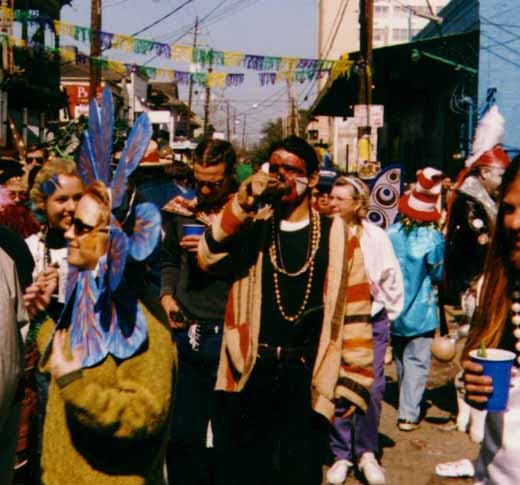 Revelers on Frenchmen Street, New Orleans, Mardi Gras Day 1997. Photo by User:Infrogmation